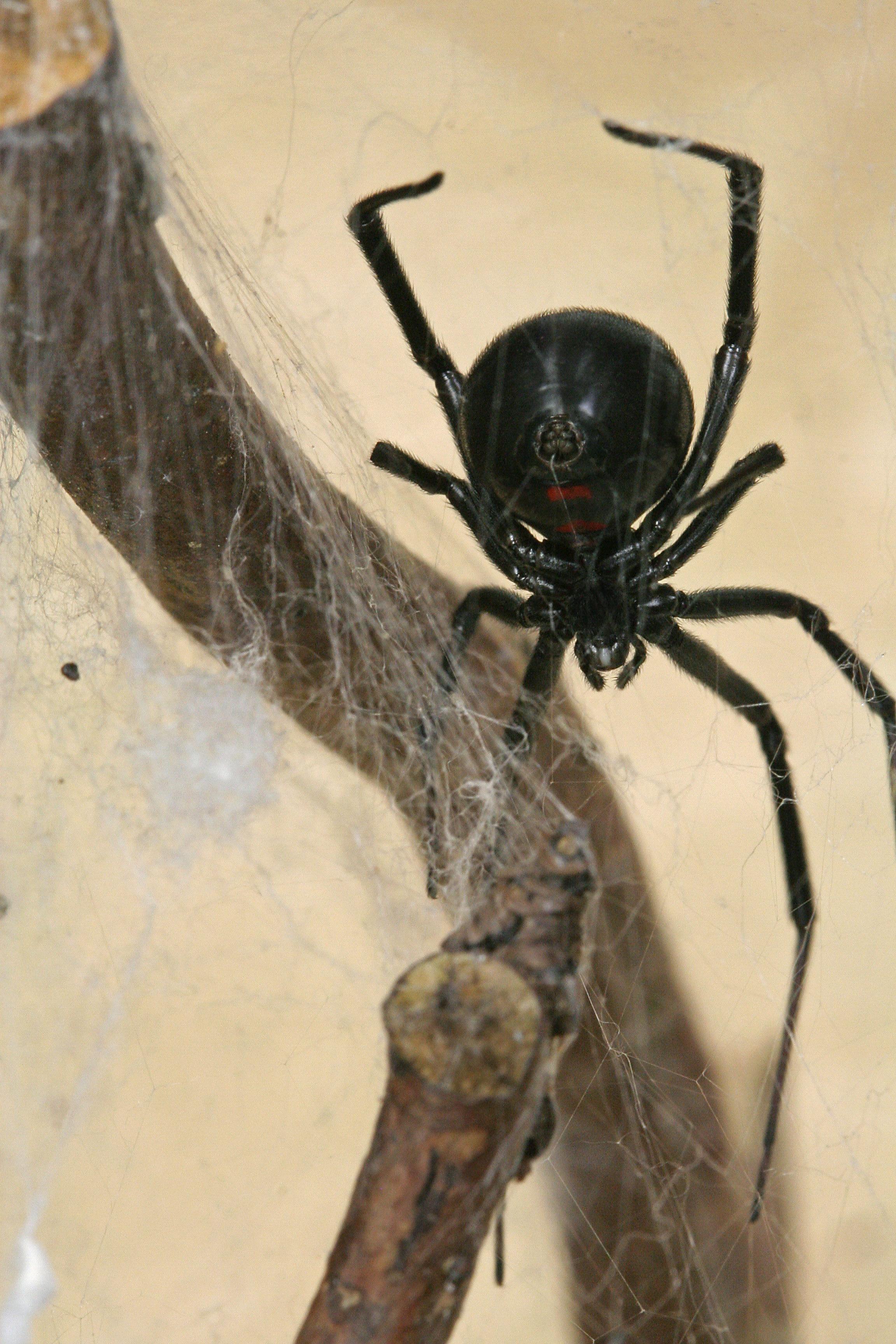 Western Black Widow (Latrodectus hesperus), I believe. This family of spiders is notorious for the females' cannibalistic behavior of consuming the males post (or even pre) mating. (In some species the male even wants to be eaten). The females are sleak and beautiful. This girl's hour glass is unfortunately not as full as can be.